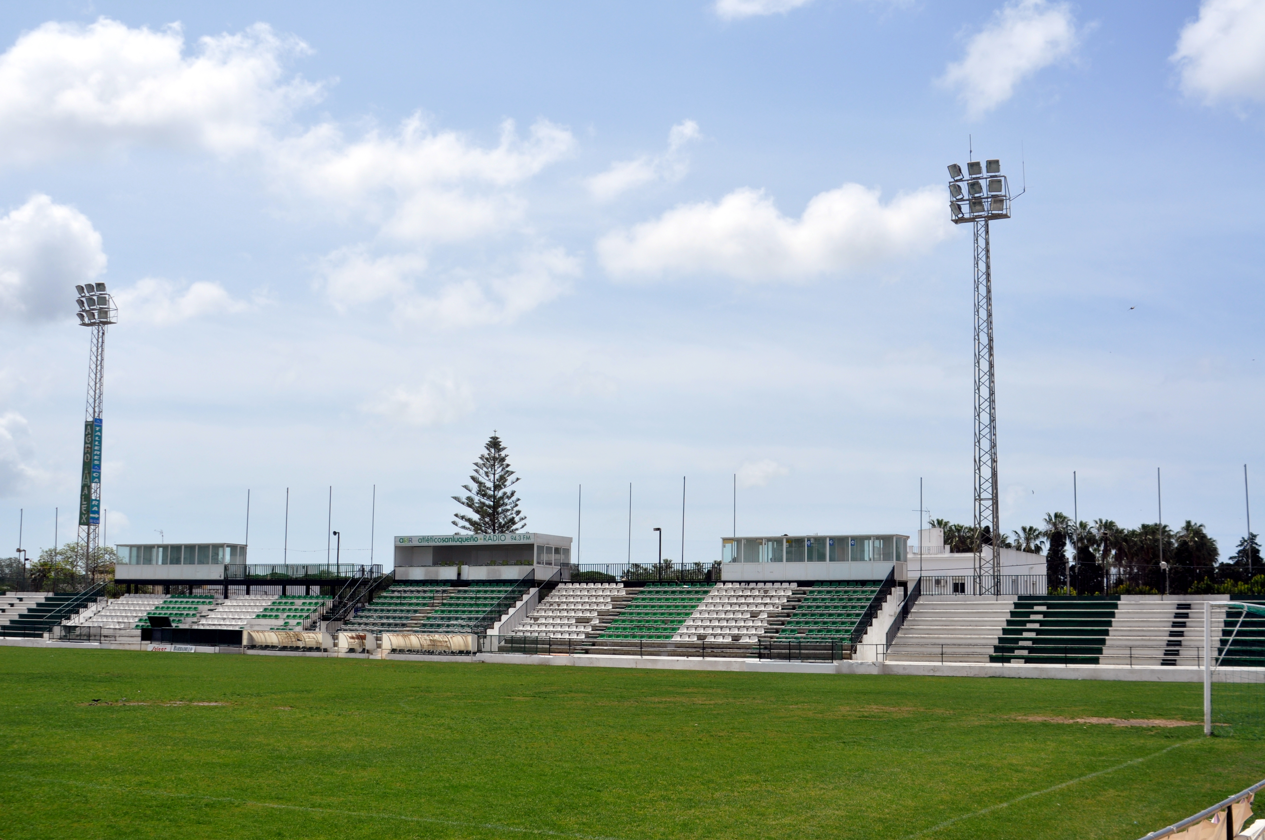 Football stadium of the Atlético Sanluqueño. Sanlúcar de Barrameda, province of Cádiz, Spain.